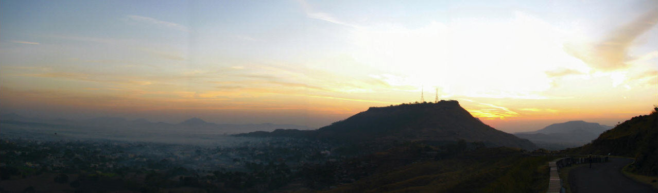 Satara From Yewteshwar